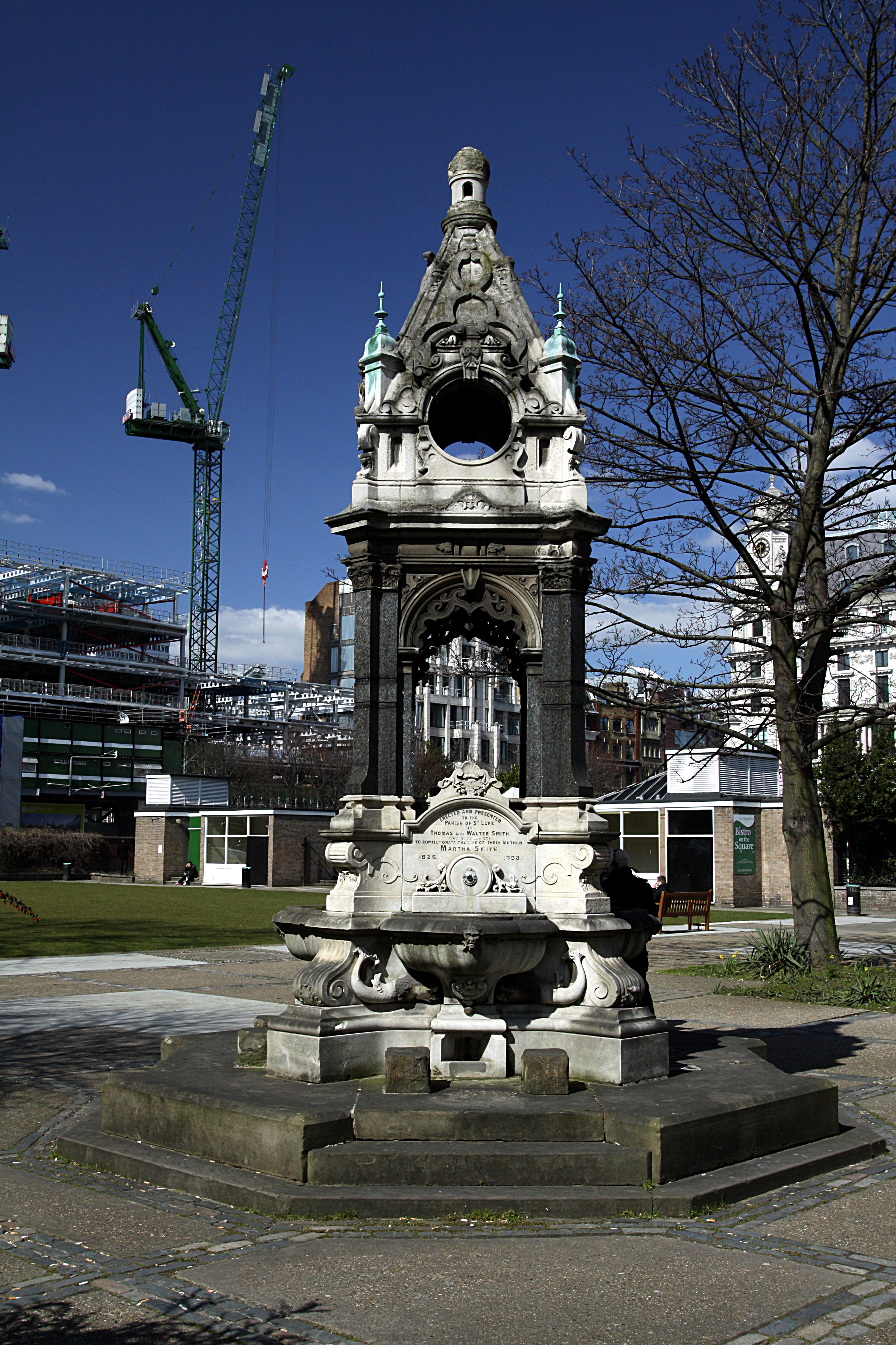 Fountain on Finsbury Square in London, Great Britain